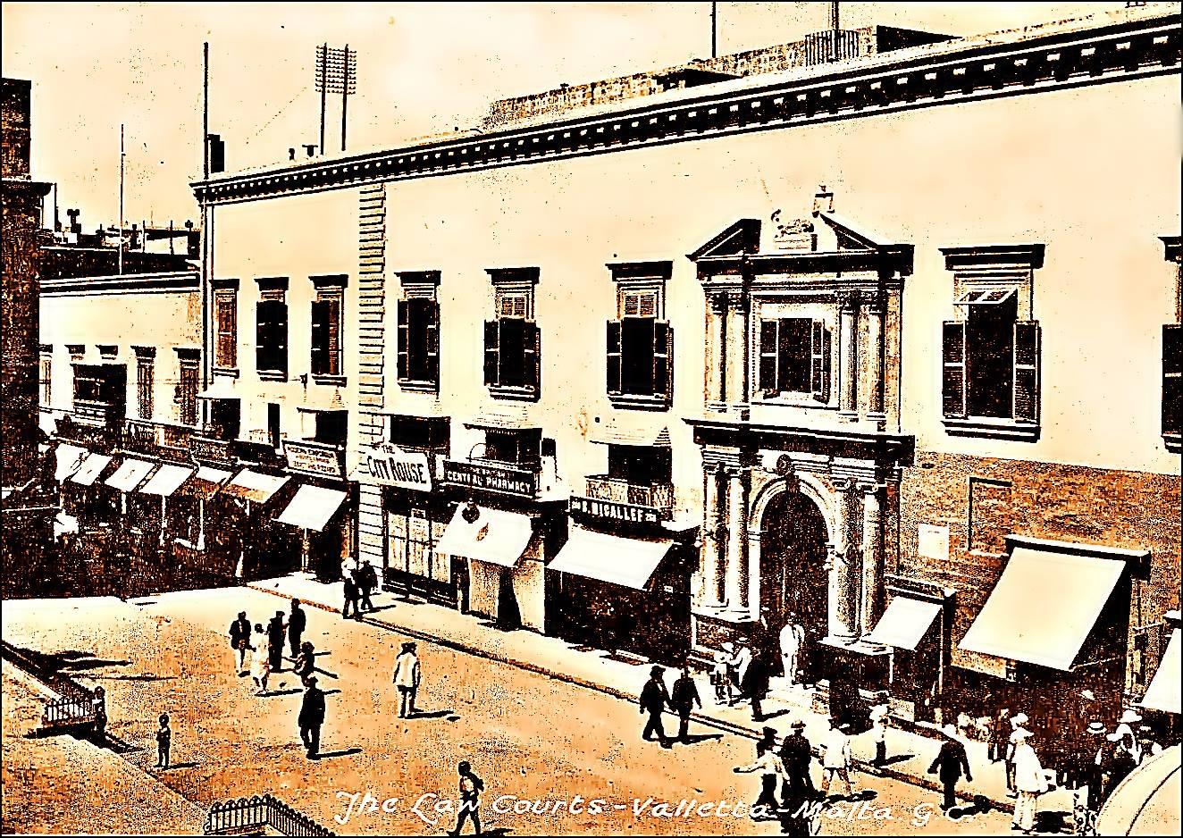 Photo taken in the early 20th century showing the Law Courts.